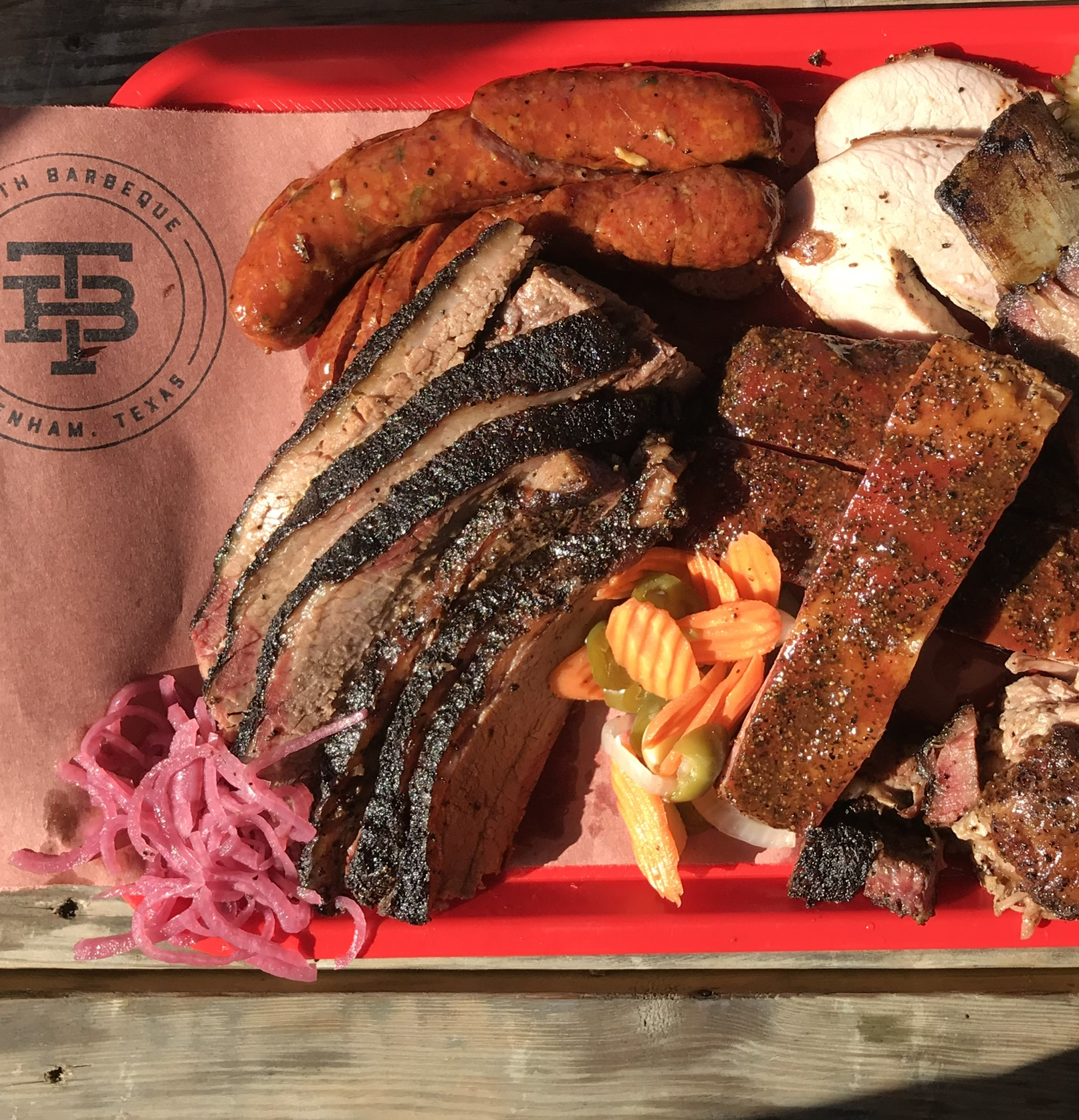 A tray of smoked meat BBQ at Truth Barbecue in Brenham, Texas.